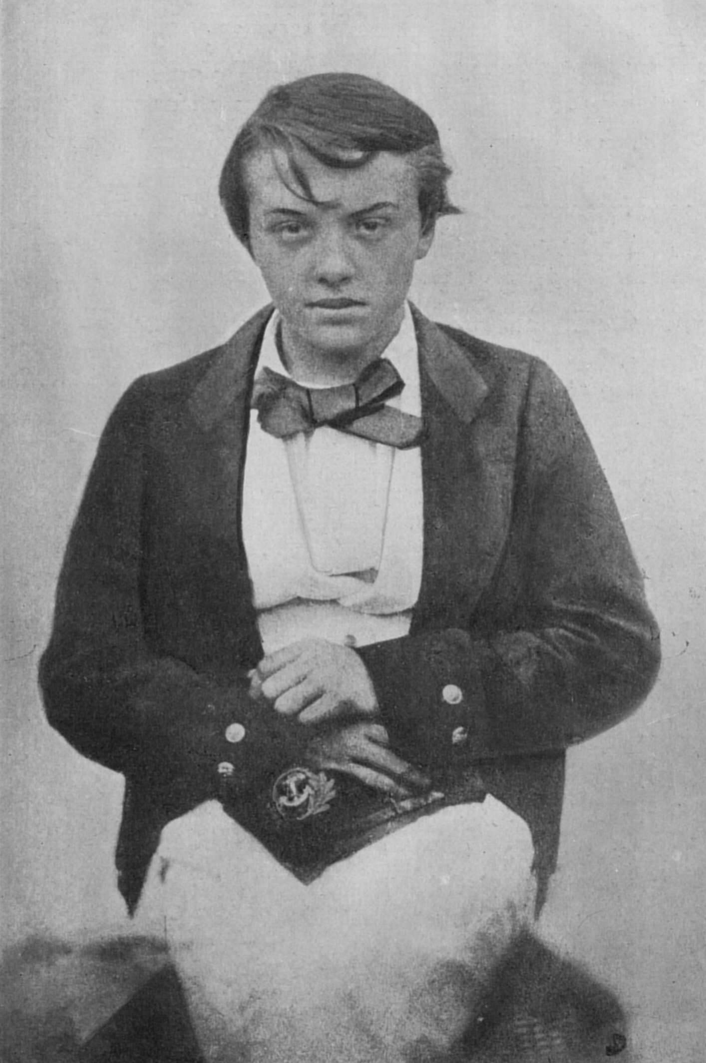 Admiral John Fisher (1841-1920) pictured as a midshipman.